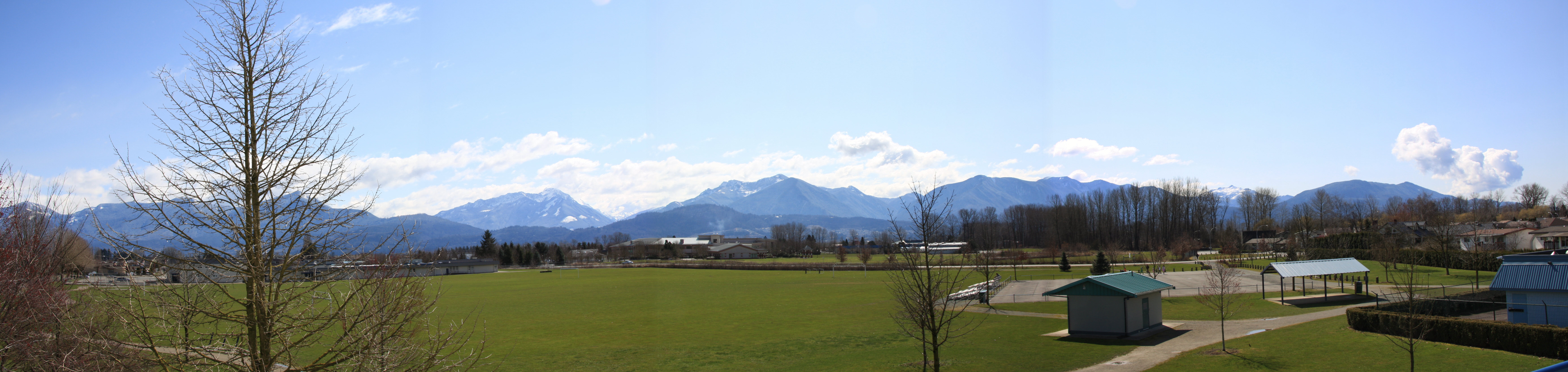 Chilliwack panorama with Fraser Valley University and Rundle School